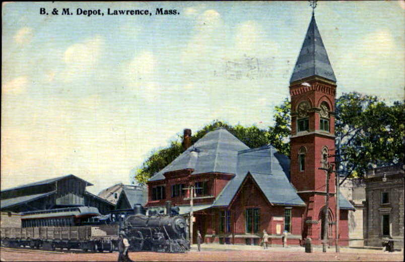 Postcard of the 1879-built Victorian Gothic train station in North Lawrence, Massachusetts